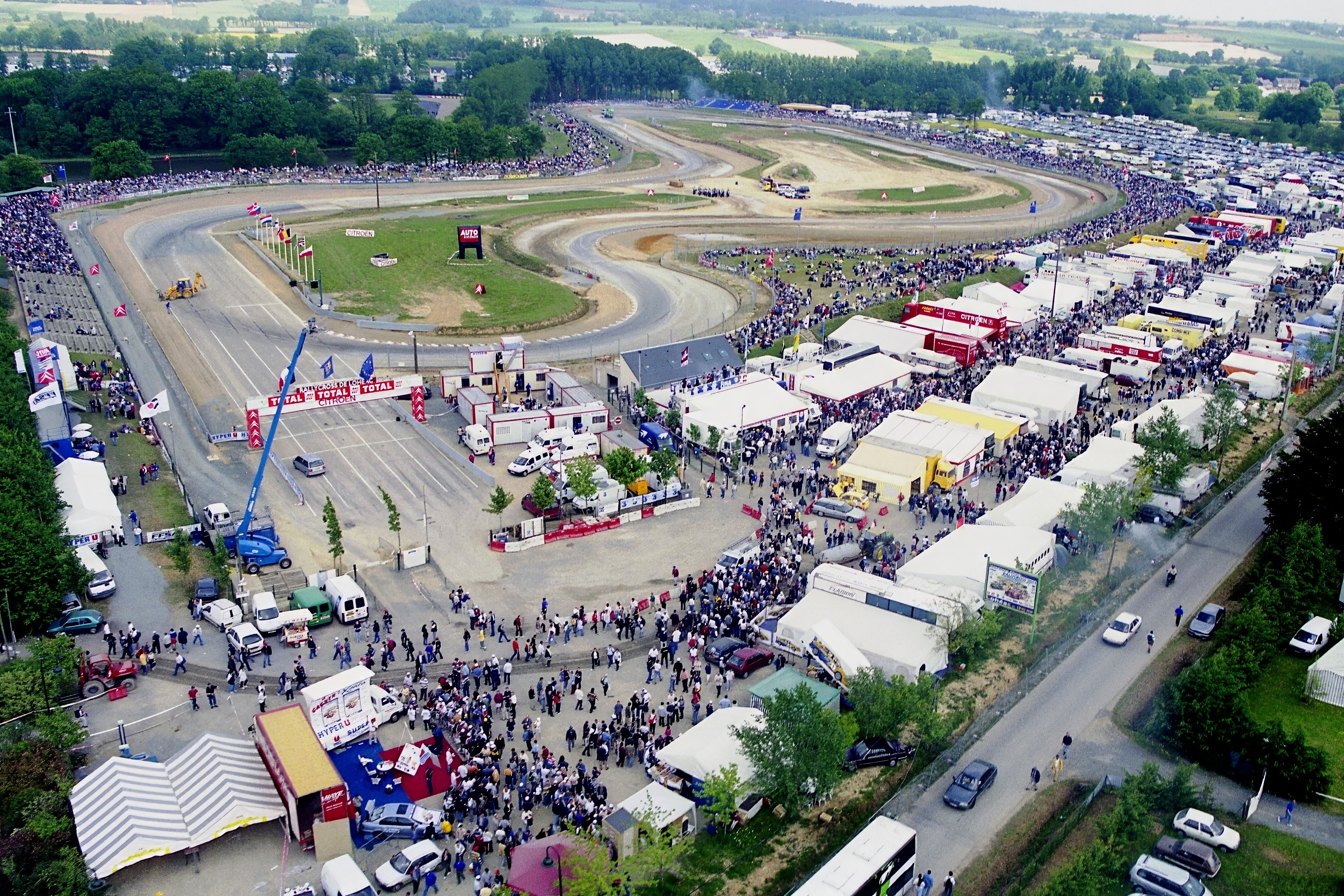 Aerial photo of the Circuit de Lohéac at Lohéac near Rennes in the Britanny, France, taken from a helicopter during a break of the French round of the 2001 FIA European Rallycross Championship.